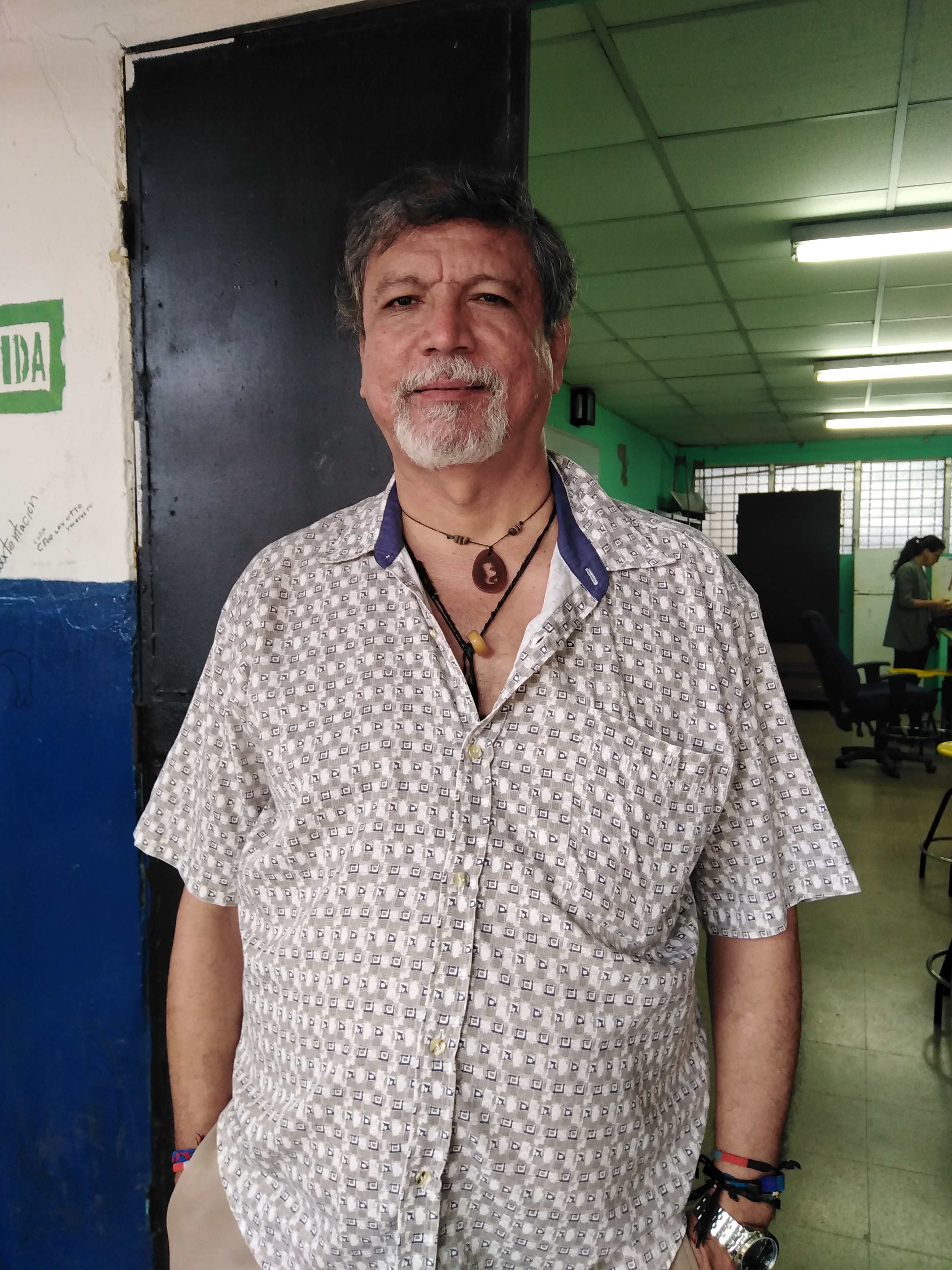 Biólogo y poeta panameño